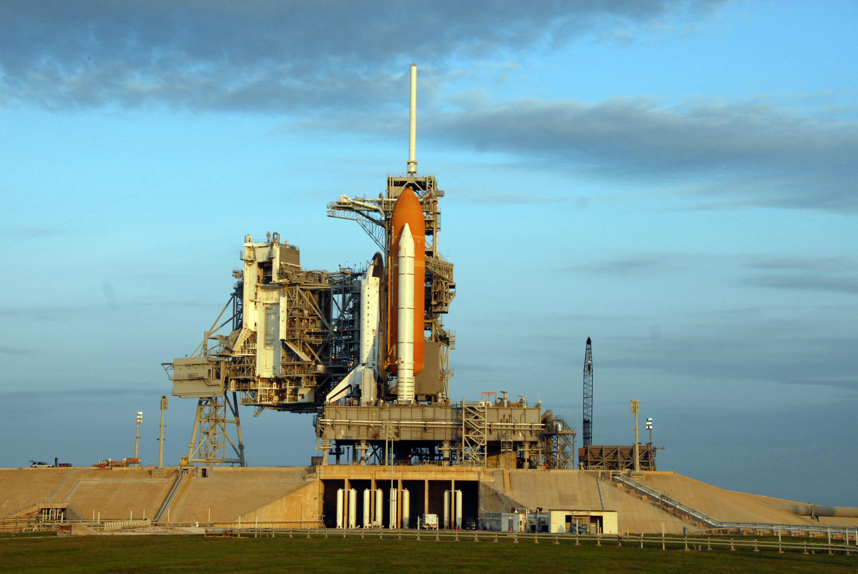 Space Shuttle Endeavour is on Launch Pad 39A and ready for prelaunch processing after a nearly 7-hour trip from the Vehicle Assembly Building. At far left is the rotating service structure, which can be rolled around to enclose the shuttle for access during processing. Behind the shuttle is the fixed service structure, topped by an 80-foot-tall lightning mast